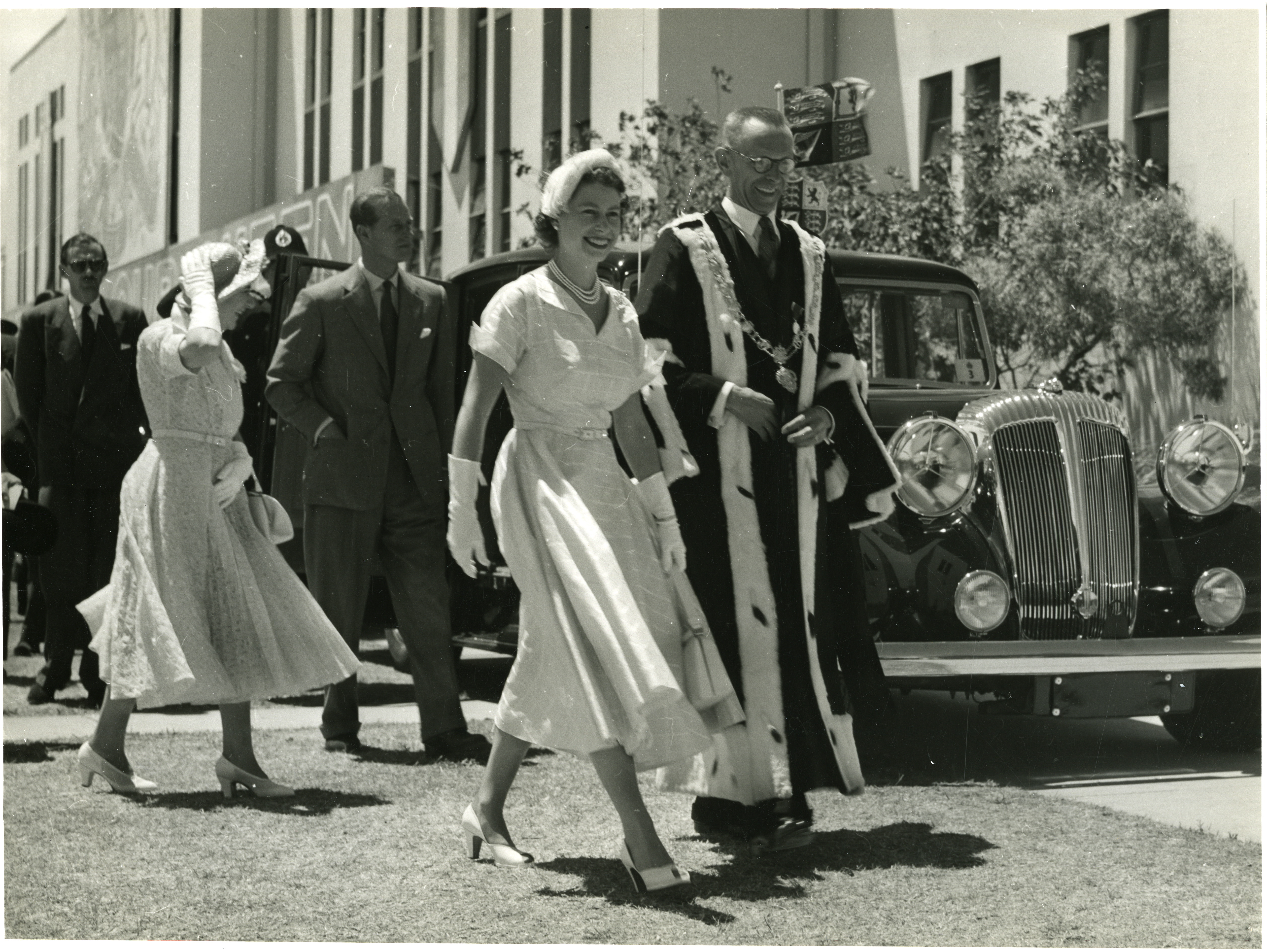 On April 21 1926 Her Majesty Queen Elizabeth II was born. Elizabeth II is the Queen of 16 of the 53 member states in the Commonwealth of Nations. She is Head of the Commonwealth and Supreme Governor of the Church of England. Today, Elizabeth is Queen of Jamaica, Barbados, the Bahamas, Grenada, Papua New Guinea, Solomon Islands, Tuvalu, Saint Lucia, Saint Vincent and the Grenadines, Belize, Antigua and Barbuda, and Saint Kitts and Nevis, the United Kingdom, Canada, Australia and New Zealand. She is the world's oldest reigning monarch as well as Britain's longest-lived and second longest-reigning head of state. Elizabeth was born in London and educated privately at home. Her father acceded to the throne as George VI on the abdication of his brother Edward VIII in 1936, from which time she was the heir presumptive. She began to undertake public duties during the Second World War, in which she served in the Auxiliary Territorial Service. In 1947, she married Prince Philip, Duke of Edinburgh, with whom she has four children: Charles, Anne, Andrew, and Edward. Elizabeth II is pictured here on the Royal Tour of New Zealand of 1953/54. Accompanying her is the Mayor of Gisborne Harry Barker and the Duke of Edinburgh in the background. This visit to Gisborne occurred on January 6 1954. The image was taken Communicate New Zealand - National Archives - CNZ Collection. Reference: AAQT 6538 W3537 box 1 (R21434655) For further information please For updates on our On This Day series and news from Archives New Zealand, follow us on Twitter Material from Archives New Zealand